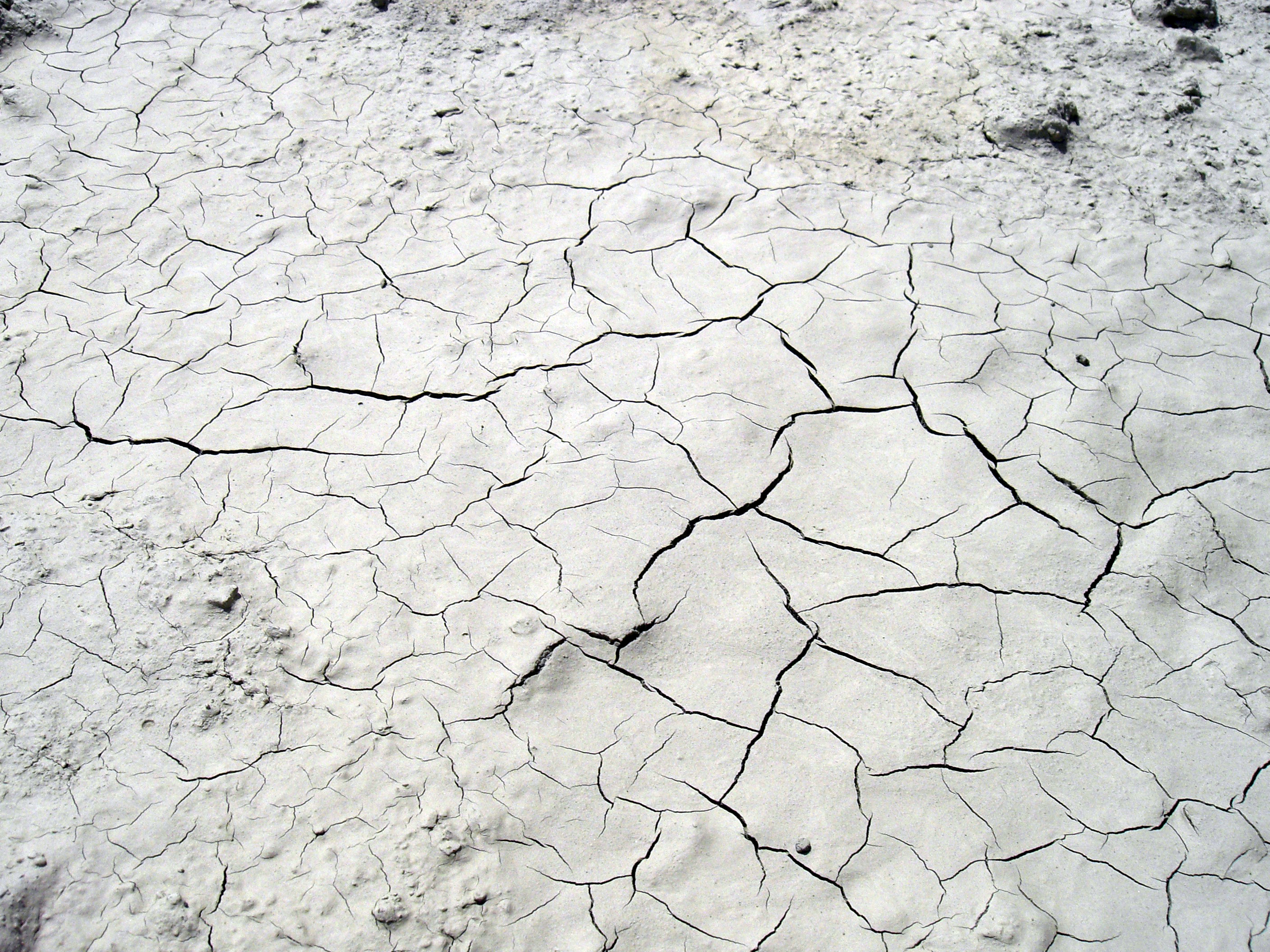 Aridity. Czech Republic